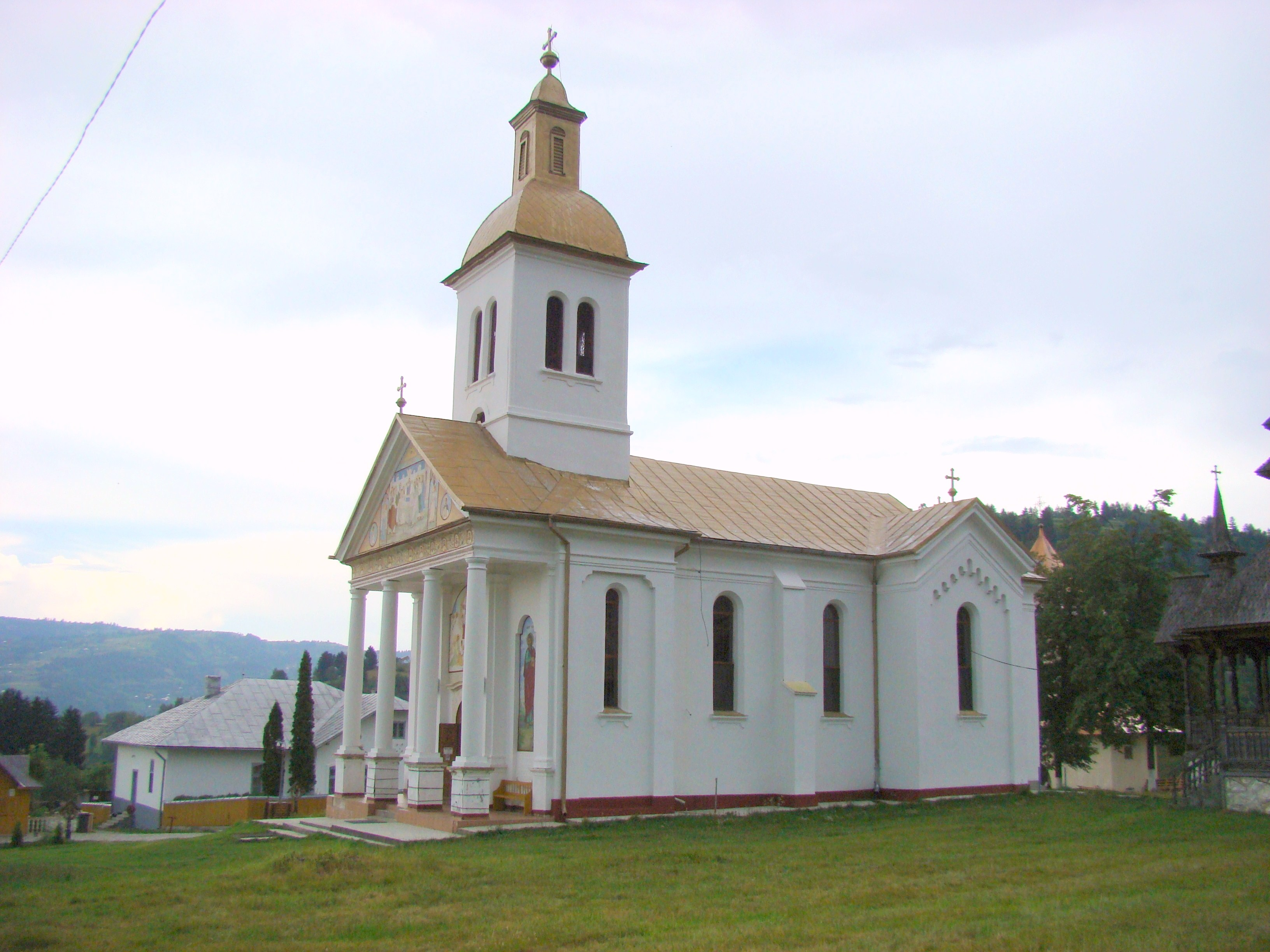 Moisei Monastery, Maramureș county, Romania